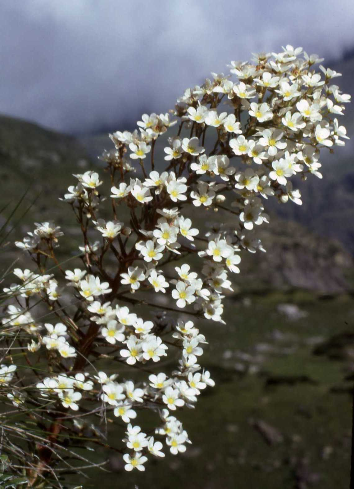 Saxifraga longifolia